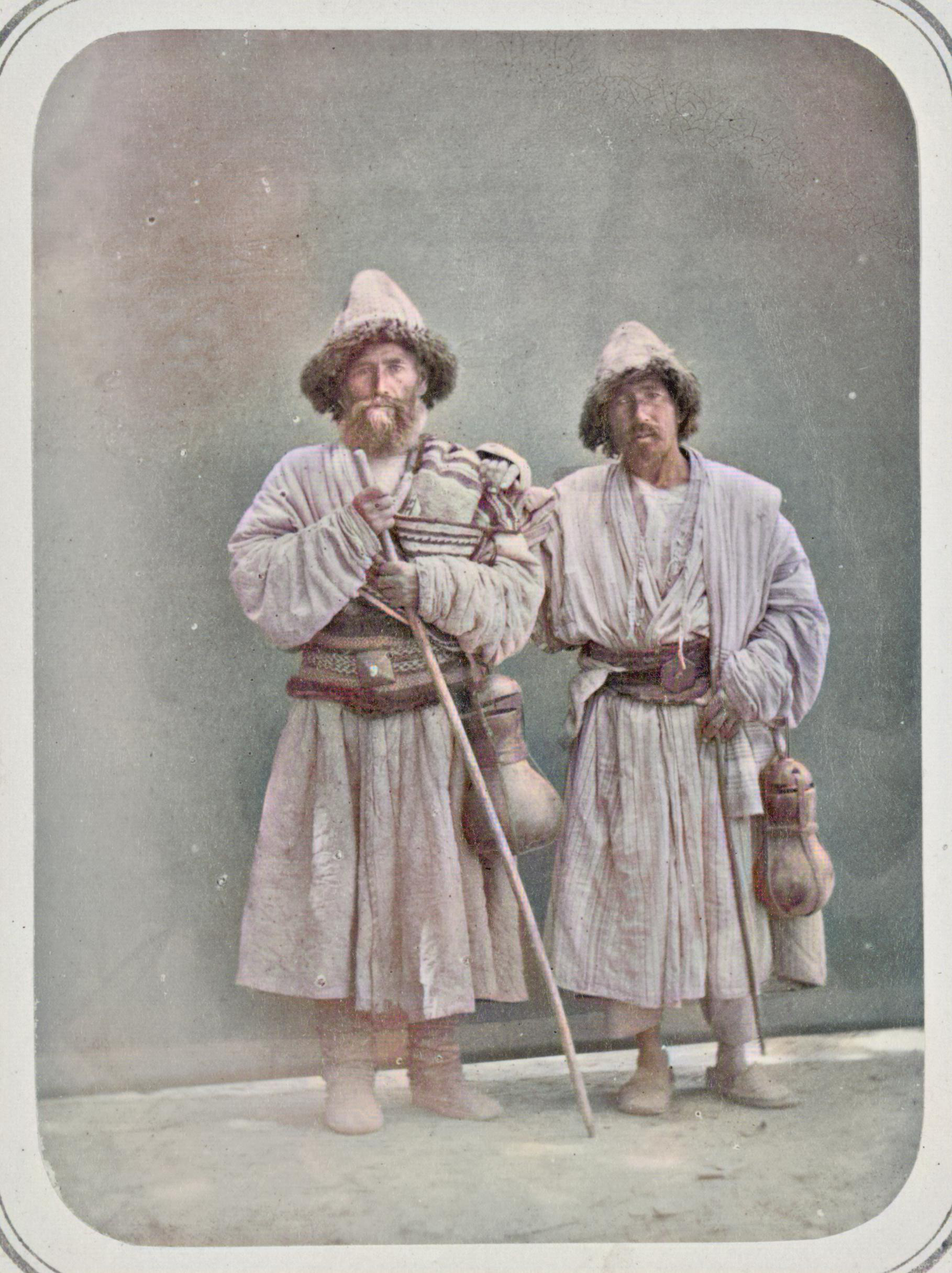 This photograph is from the ethnographical part of Turkestan Album, a comprehensive visual survey of Central Asia undertaken after imperial Russia assumed control of the region in the 1860s. Commissioned by General Konstantin Petrovich von Kaufman (1818–82), the first governor-general of Russian Turkestan, the album is in four parts spanning six volumes: “Archaeological Part” (two volumes); “Ethnographic Part” (two volumes); “Trades Part” (one volume); and “Historical Part” (one volume). The principal compiler was Russian Orientalist Aleksandr L. Kun, who was assisted by Nikolai V. Bogaevskii. The album contains some 1,200 photographs, along with architectural plans, watercolor drawings, and maps. The “Ethnographic Part” includes 491 individual photographs on 163 plates. The photographs show individuals representing the different peoples of the region (Plates 1–33); daily life and rituals (Plates 34–91); and views of villages and cities, street vendors, and commercial activities (Plates 92–163). Beggars; Clothing and dress; Ethnographic photographs; Festivals; Folk festivals; Group portraits; Men; New Year; Photographic surveys; Portrait photographs; Turkic peoples